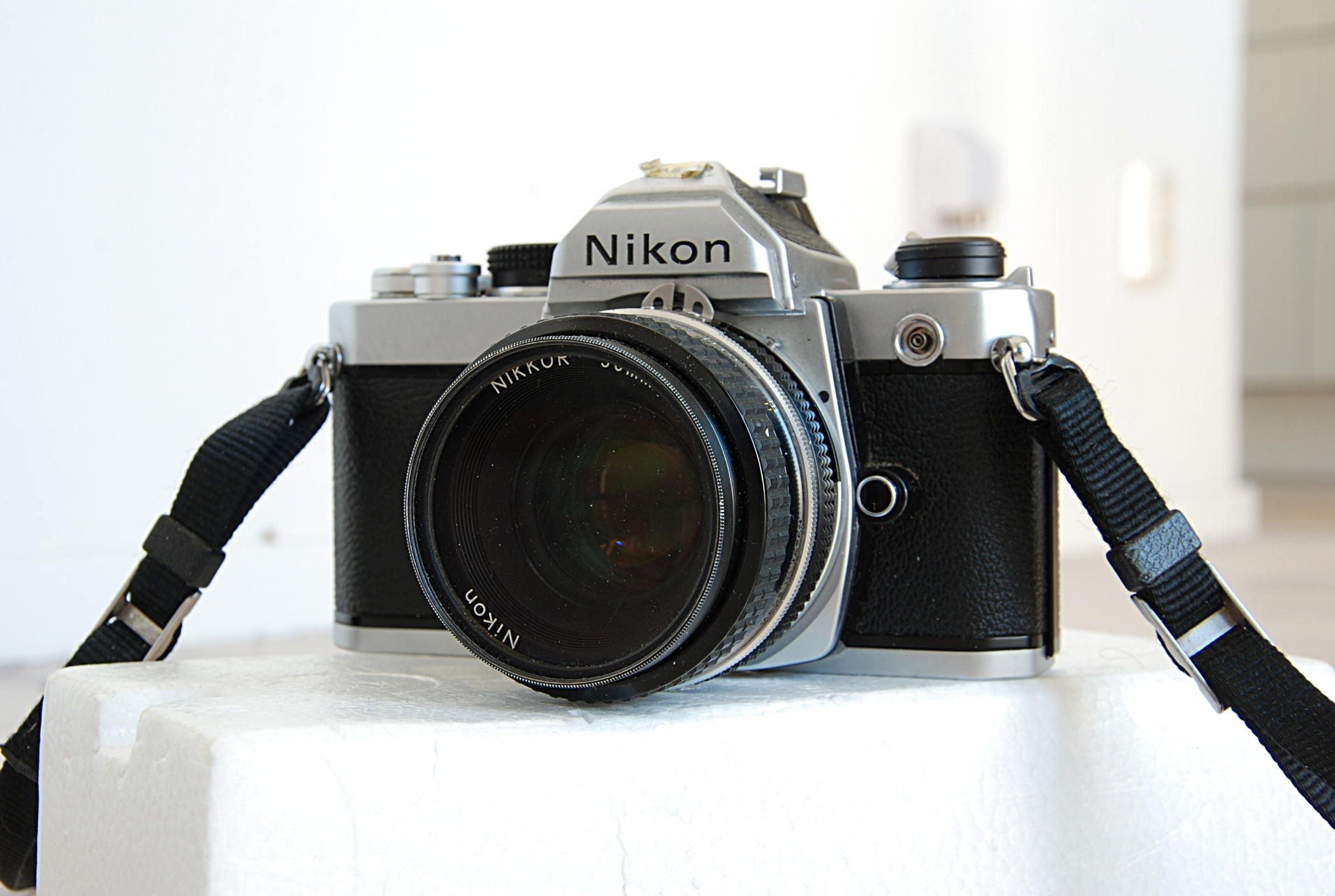 Nikon FM and Nikon 50mm F/1.8